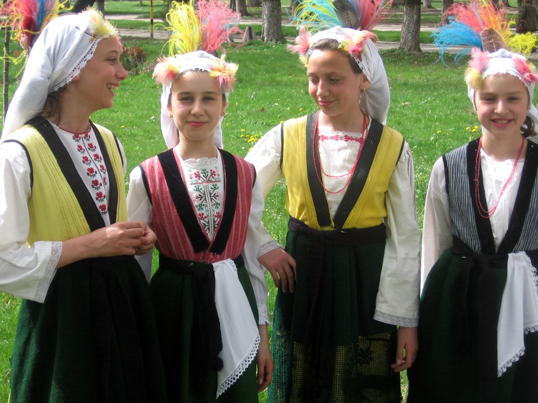 Lazarki from the village of Gabra, Sofia Region, Bulgaria